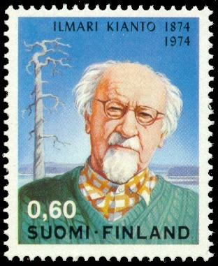 Postage stamp depicting Finnish writer Ilmari Kianto